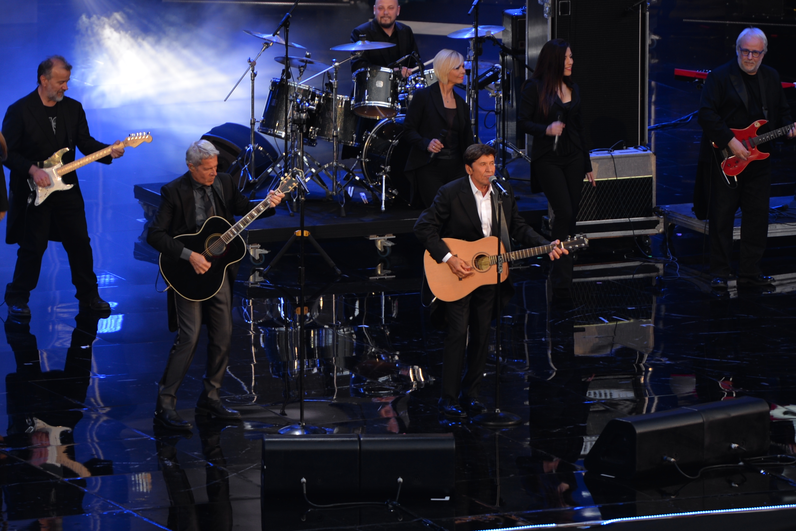 Cladio Baglioni and Gianni Morandi at the Wind Music Awards 2016 ceremony at Verona Arena